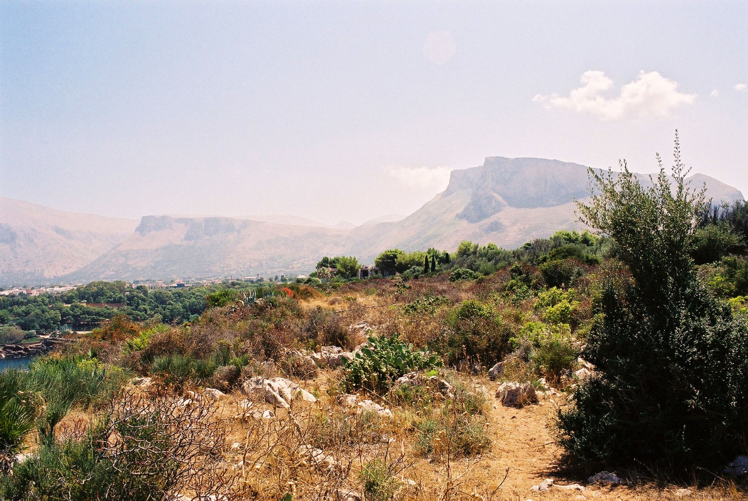 Riserva naturale Capo Rama La Macchia: typical wild vegetation of Sicily